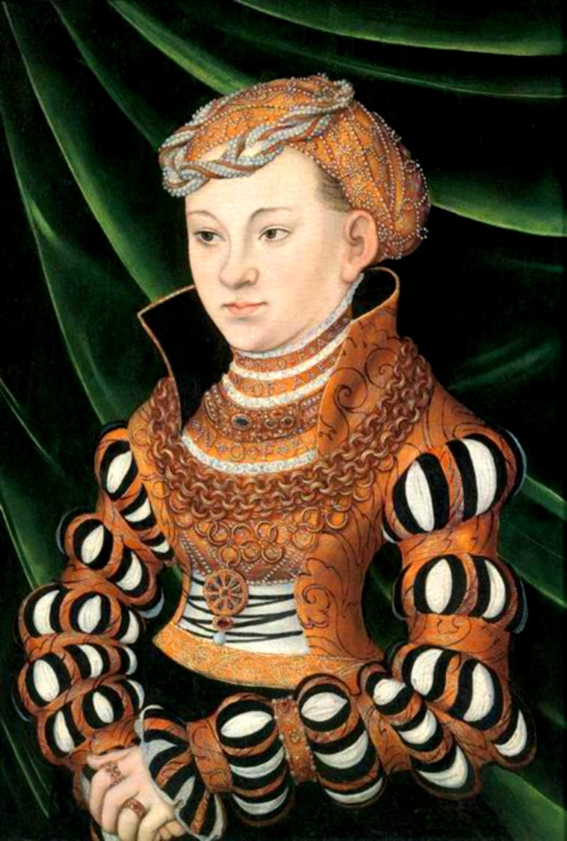 Margaretha of Saxony, Duchess of Pomerania by Lucas Cranach the Elder